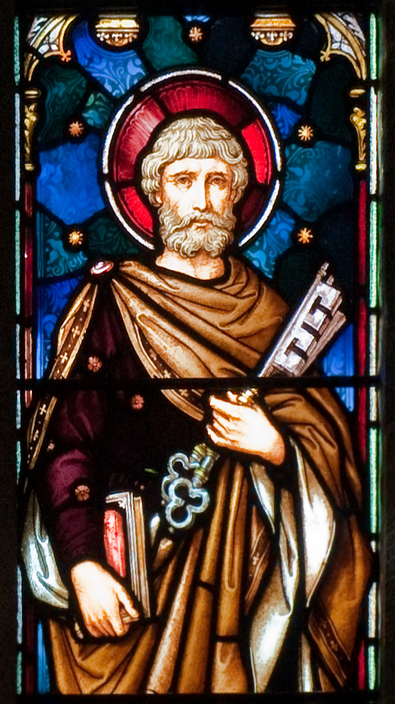 Detail of the fifth stained glass window in the west aisle (left from the nave if coming from the main entrance in the south), depicting the Apostle Peter. Augustus Pugin (1812–1852) Alternative names Augustus Welby Northmore Pugin; A. W. N. PuginDescriptionBritish architectDate of birth/death 1 March 1812 14 September 1852 Location of birth/death Bloomsbury RamsgateWork location United Kingdom Authority control : Q313288 VIAF: 17247761 ISNI: 0000 0000 8096 1987 ULAN: 500008414 LCCN: n50027100 NLA: 35435757 WorldCat creator QS:P170,Q313288